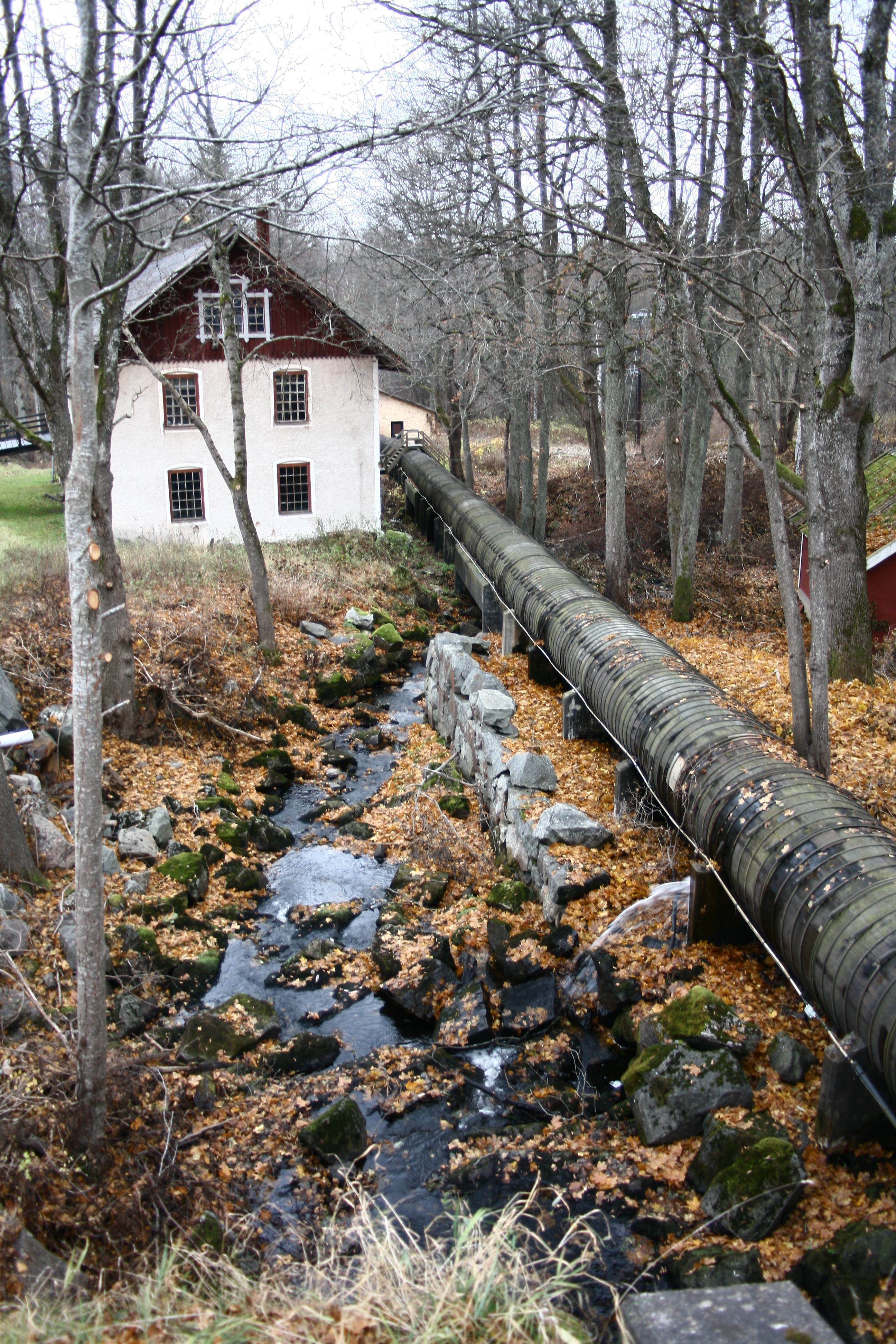 The wooden pipe running along the dry mainstream at Skogaholm, Närke, Sweden.